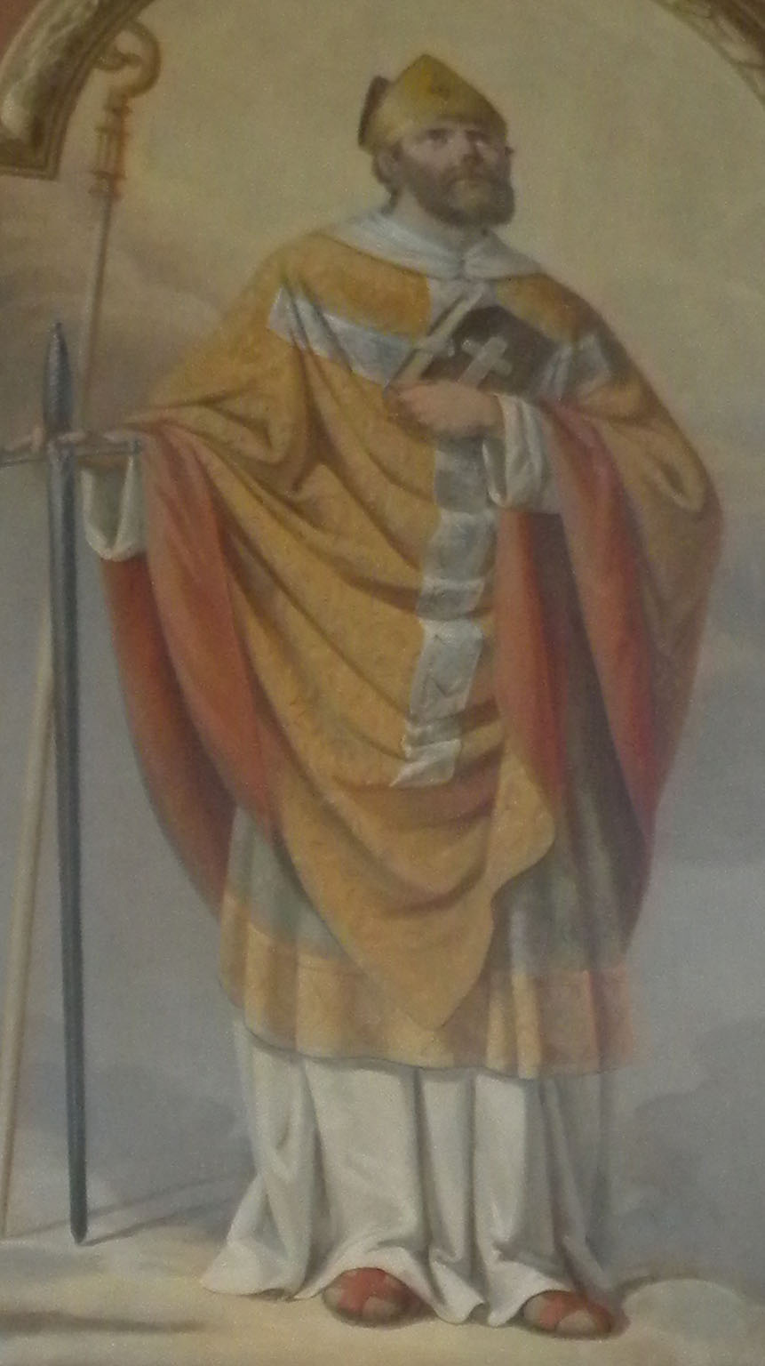 St Victorinus on fresca in church in Nova Cerkev